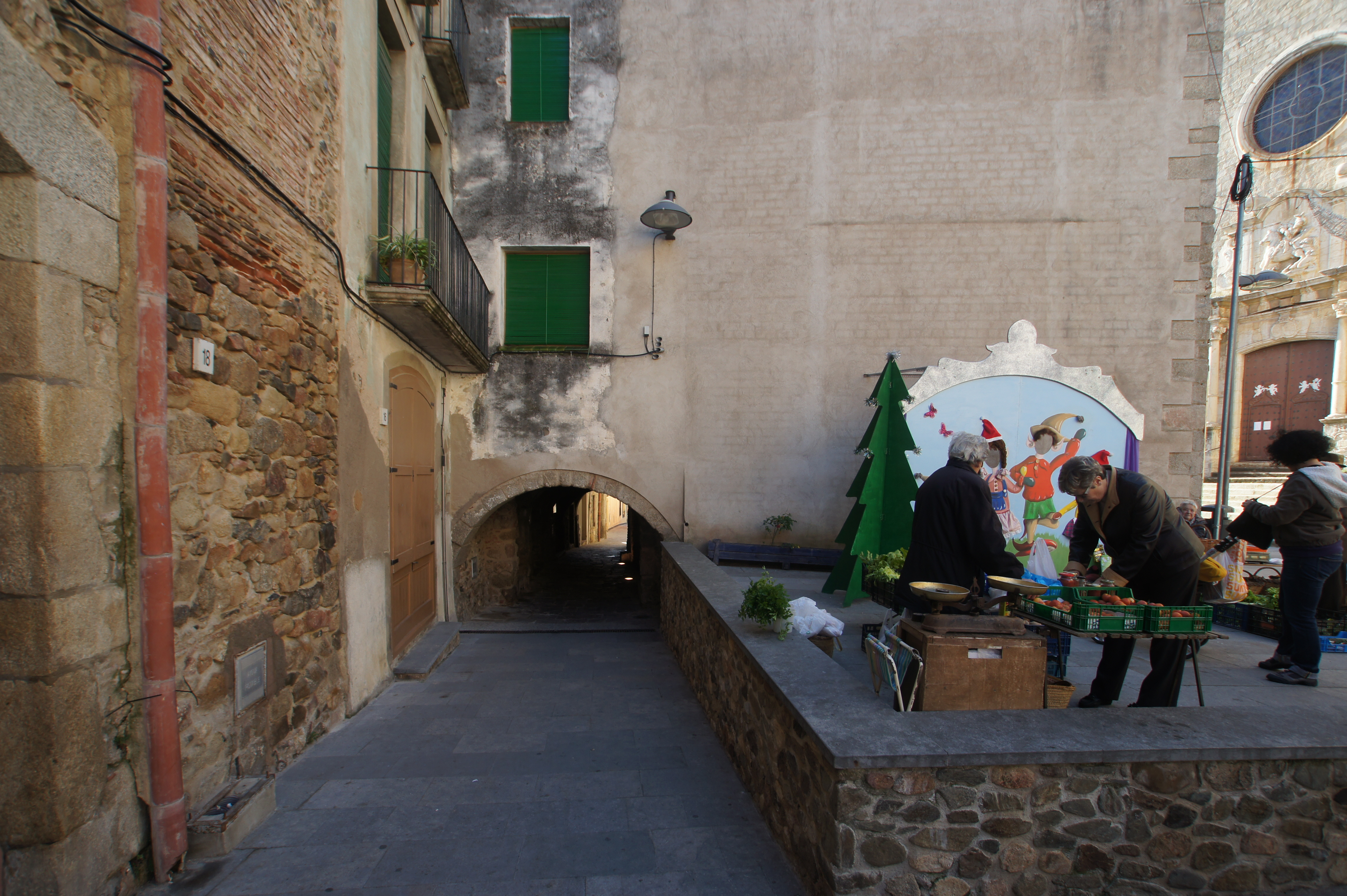 Calonge, Catalonia: Northern entry from the Carrer Càcul